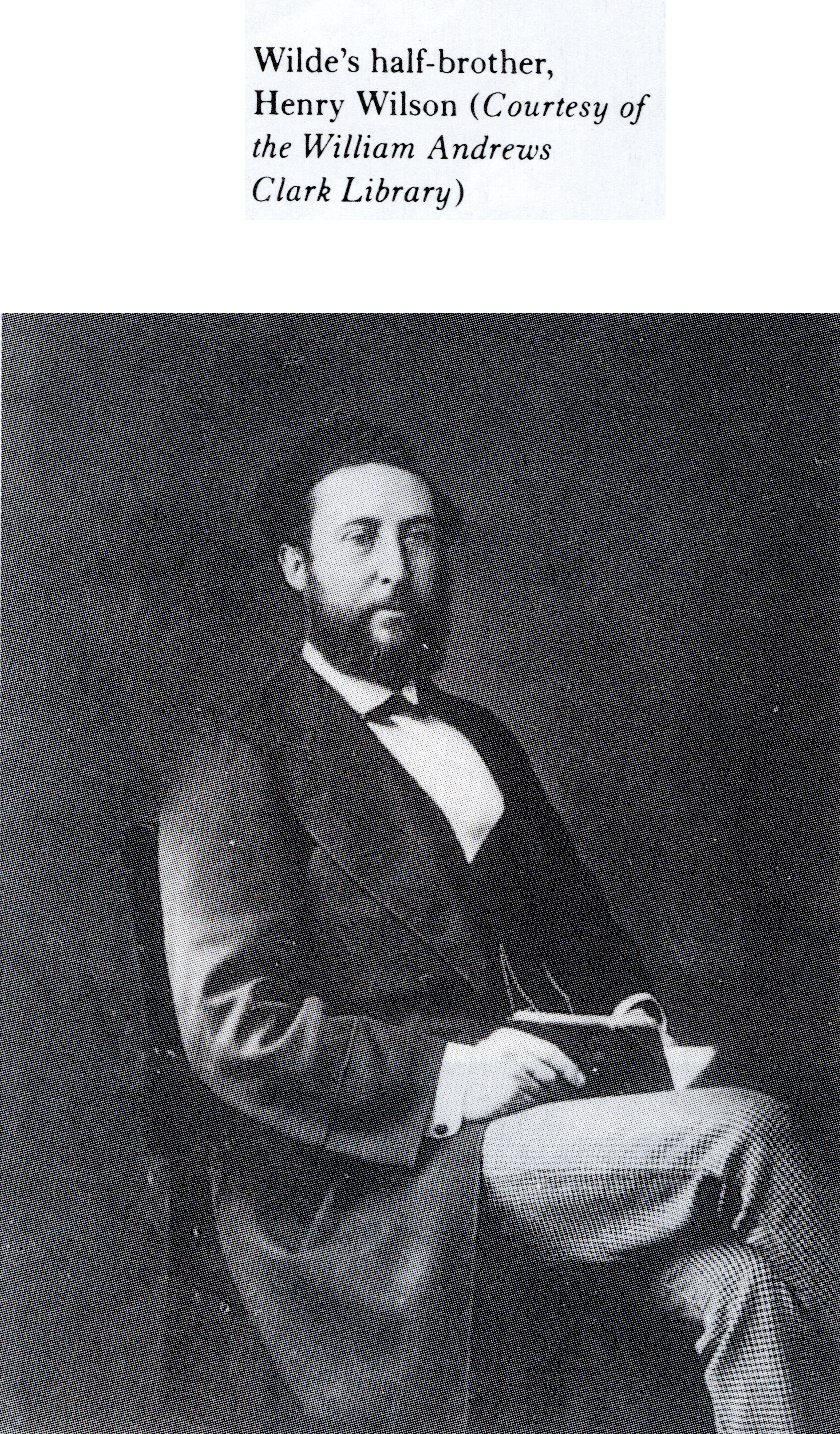 Henry Wilson the Half-Brother of Oscar Wilde